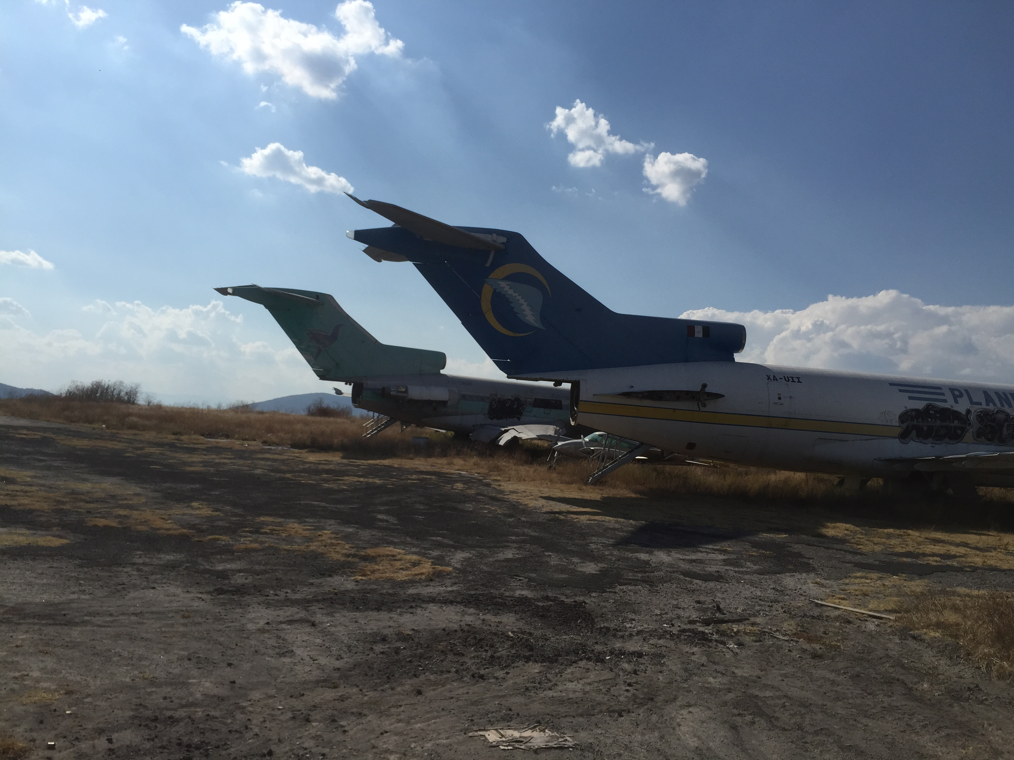 the last boeing 727 of aerolineas internacionales resting on peace in cuernavaca,morelos airport. Gen. mariano matamoros MMCB (this photo was taken on january 5 2016).